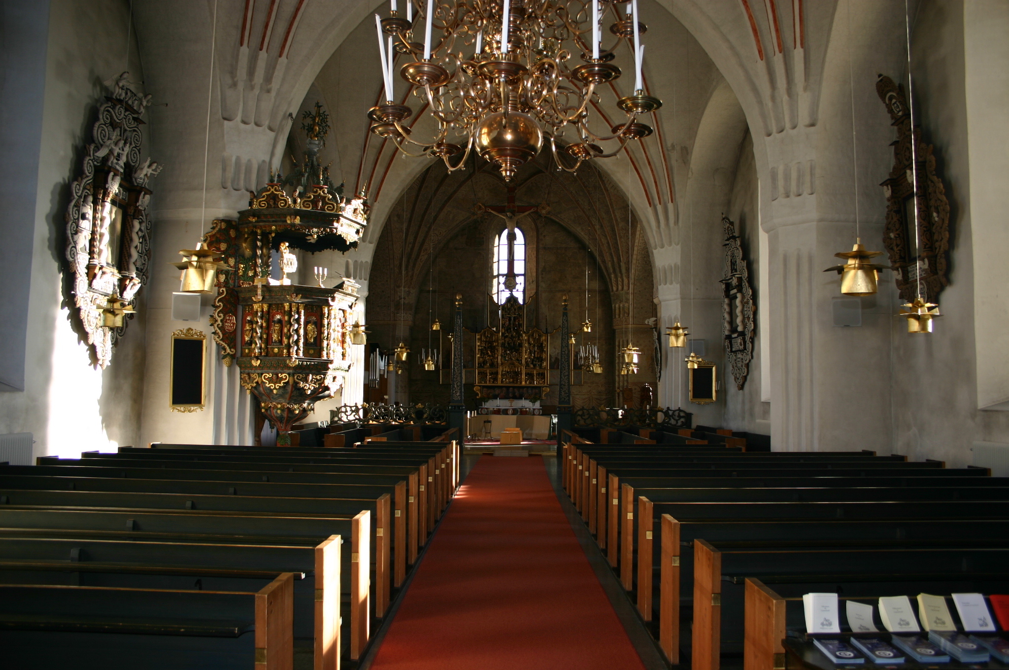 Description:Nederluleå (Lower Luleå) church is the largest mediaeval church in Norrland. (Gammelstad,Sweden) source: created on 18.10.2005 by Stephan Herz with Canon EOS 300D